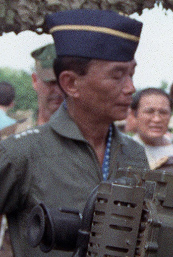 GEN Sundhara Kongsompong, left center, Supreme Commander, Royal Thai Armed Forces, and U.S. Ambassador to Thailand Daniel A. O'Donohue, center right, view a TOW tube-launched, optically tracked, wire-guided heavy anti-tank weapon at a static display manned by members of 4th Bn., 22nd Inf., 25th Inf. Div. (Light), following the opening ceremonies for the combined Thai/U.S. exercise Cobra Gold '90.